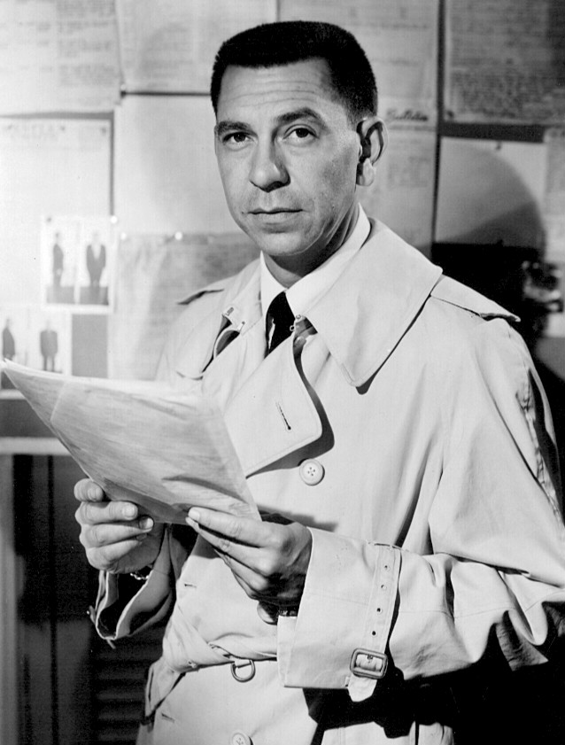 Photo of Jack Webb as Sergeant Joe Friday from the television series Dragnet.